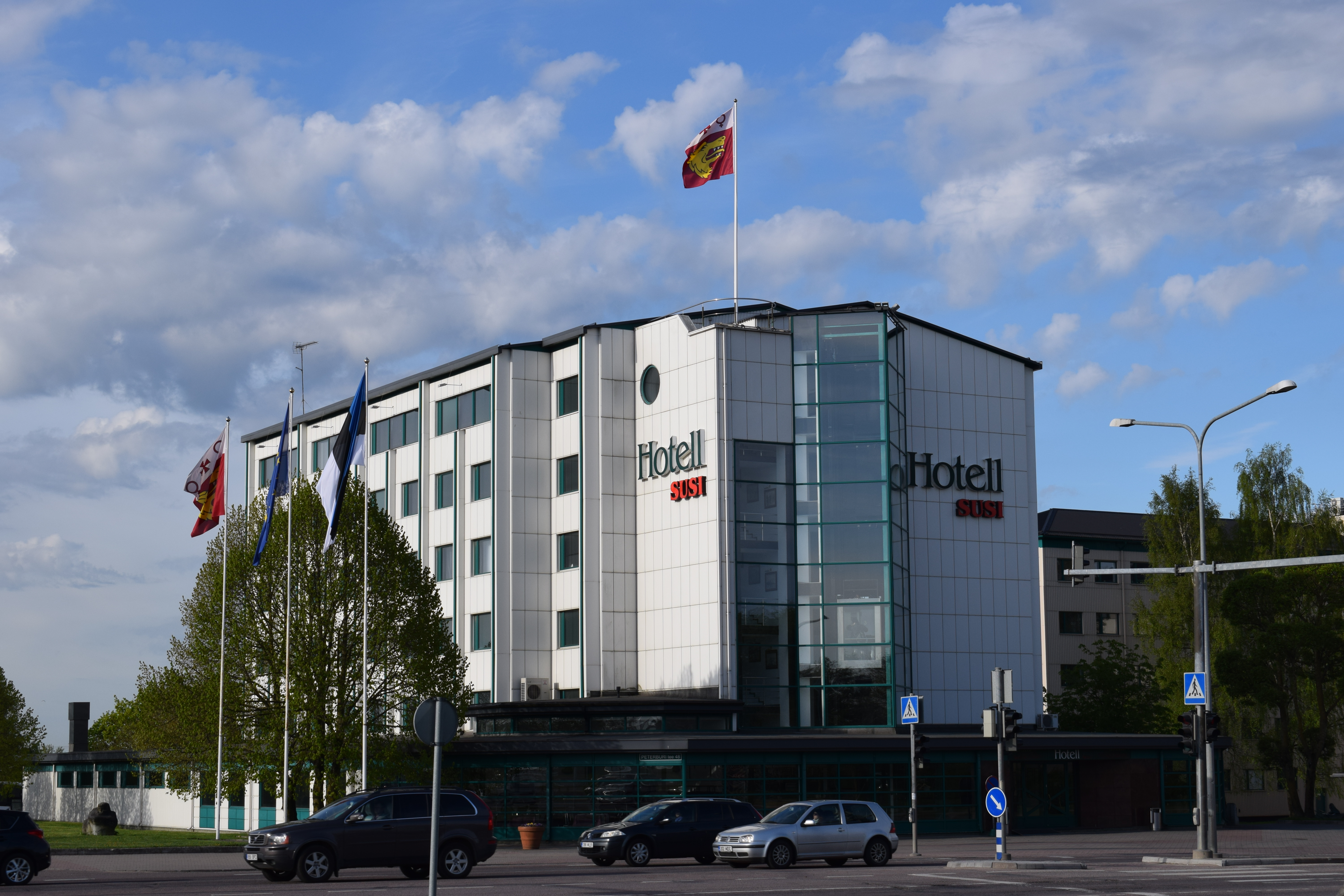 Hotel Susi